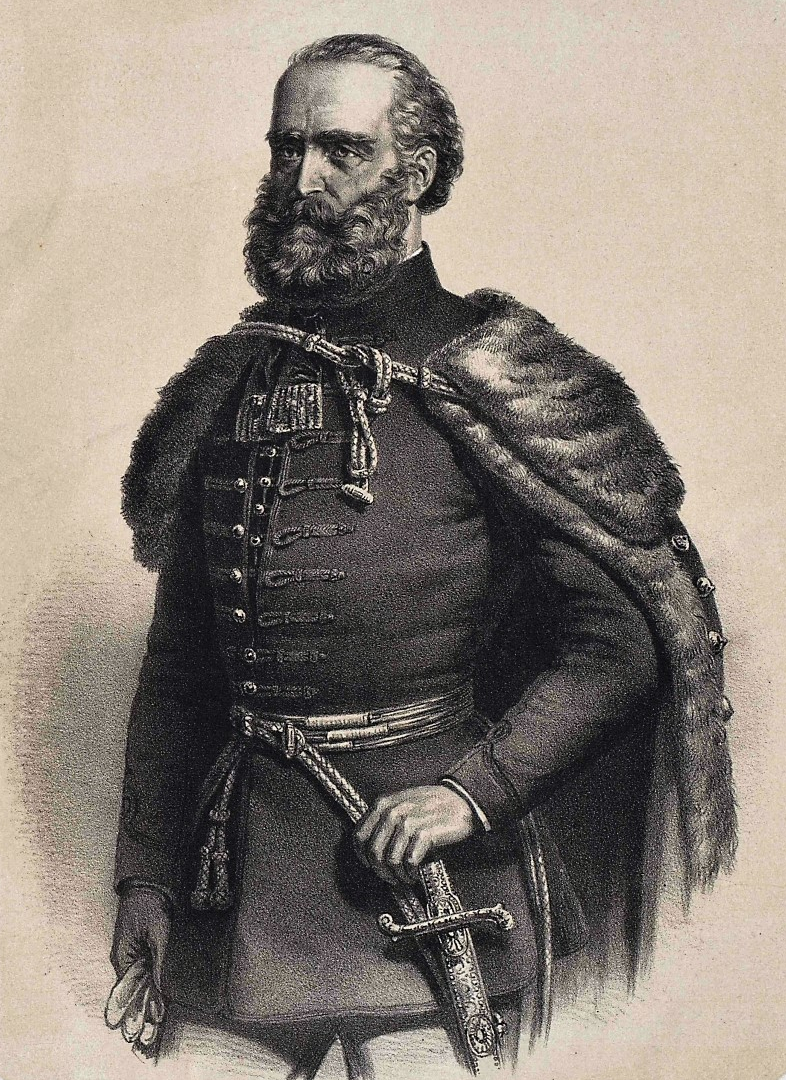 Széchenyi István